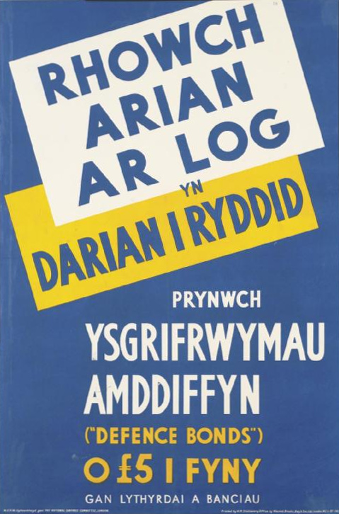 Rhowch Arian ar Log yn Darian i Ryddid [invest Money with Interest to Shield Liberty] whole: the title is positioned in the upper half, in blue, held within white and yellow insets. The text is placed in the lower half, in white and in yellow. All set against a blue background. image: text only. text: RHOWCH ARIAN AR LOG YN DARIAN I RYDDID PRYNWCH YSGRIFRWYMAU AMDDIFFYN ('DEFENCE BONDS') O £5 I FYNY GAN LYTHYRDAI A BANCIAU W.F.P. 18. Cyhoeddwyd gan THE NATIONAL SAVINGS COMMITTEE, LONDON. Printed by [sic] H.M. Stationery Office by Vincent Brooks, Day and Son, Ltd., London. W.C.2. 51-5425. [Invest money with interest to shield liberty. Purchase Defence Bonds worth £5 or more from Post Offices and Banks.]